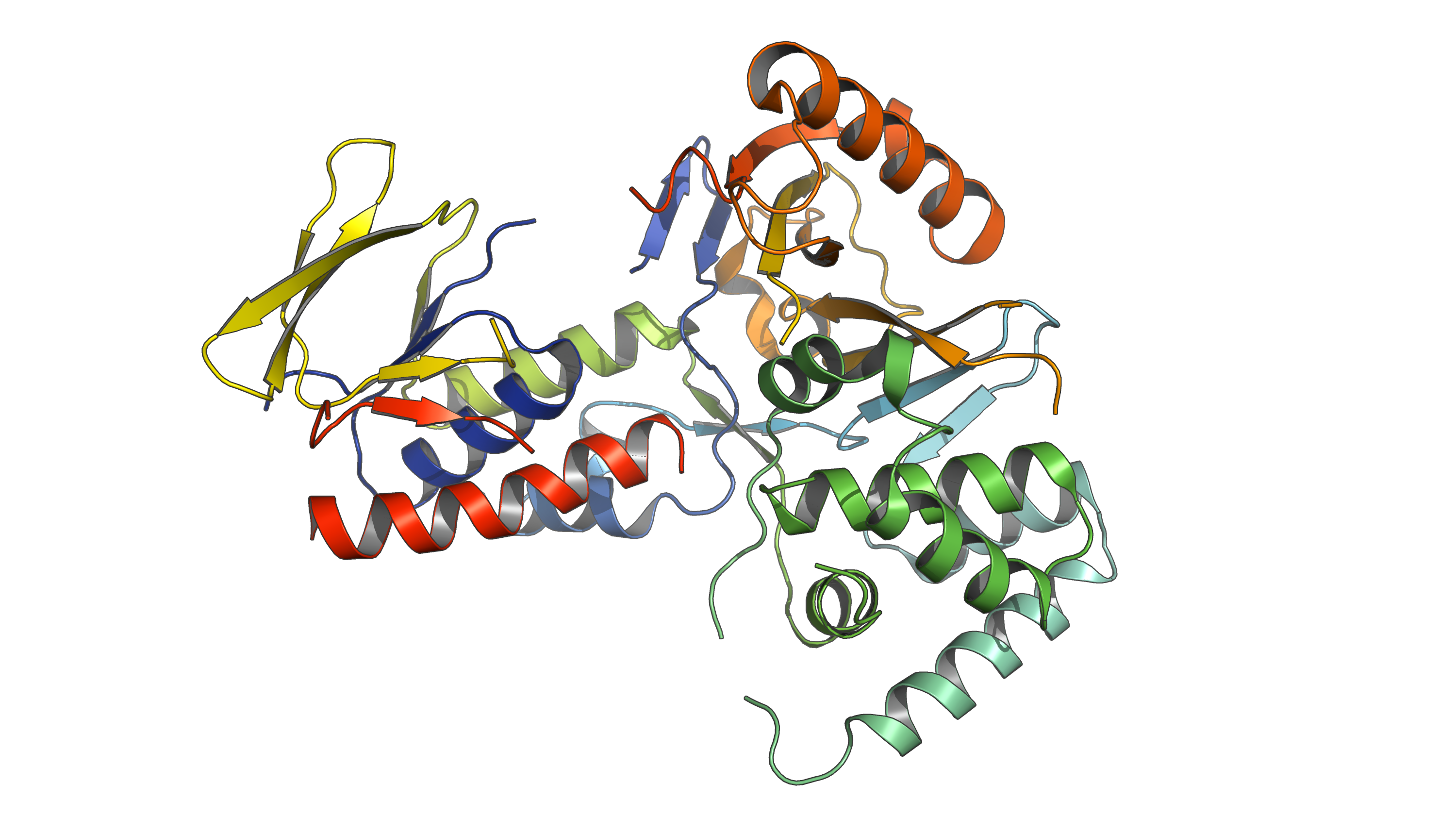 Cartoon representation of the crystal structure of CrtI. Bacterial phytoene dehydrogenase from Pantoea ananatis. Colored from N-terminus in blue to C-terminus in red. PDB: 4DGK​. Corresponding paper